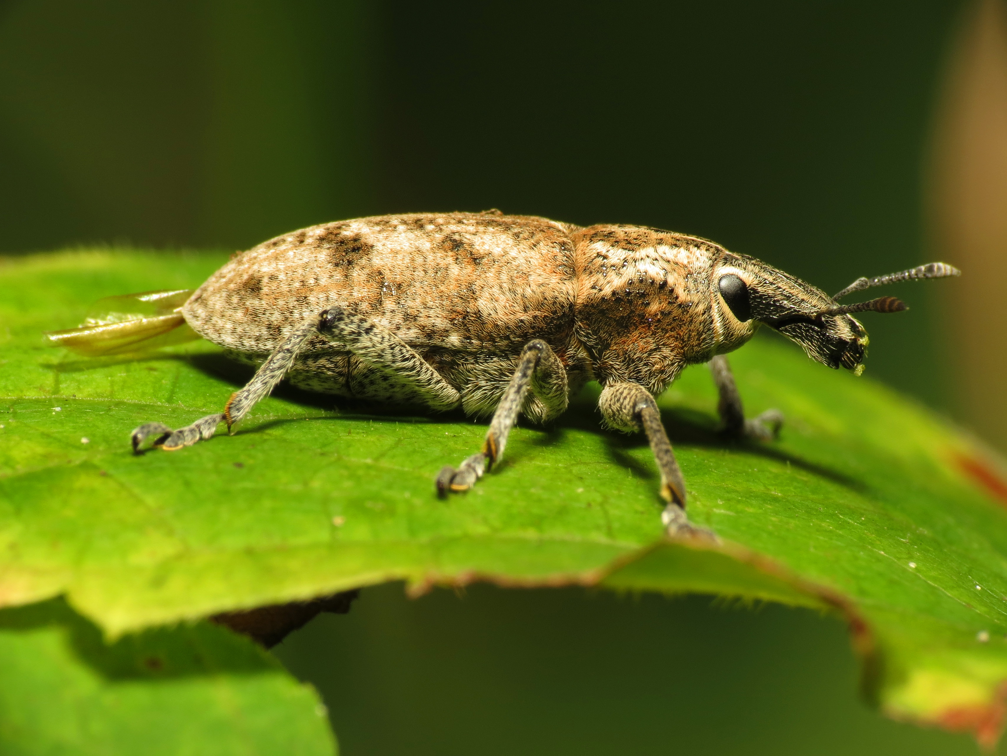 Cleonis piger. Rock Creek Park, Washington, DC, USA